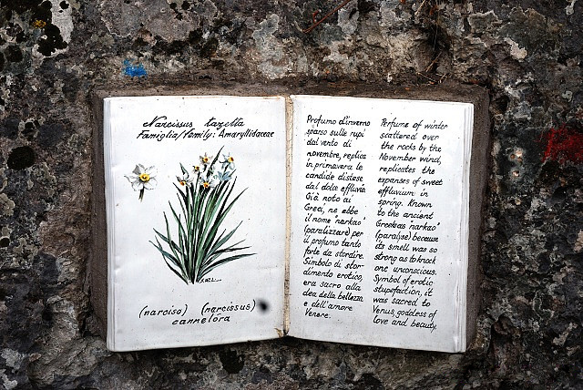 another plaque